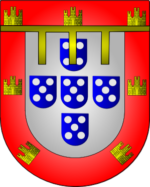 Arms of the Prince heir of Portugal since 1481. Made by JSobral